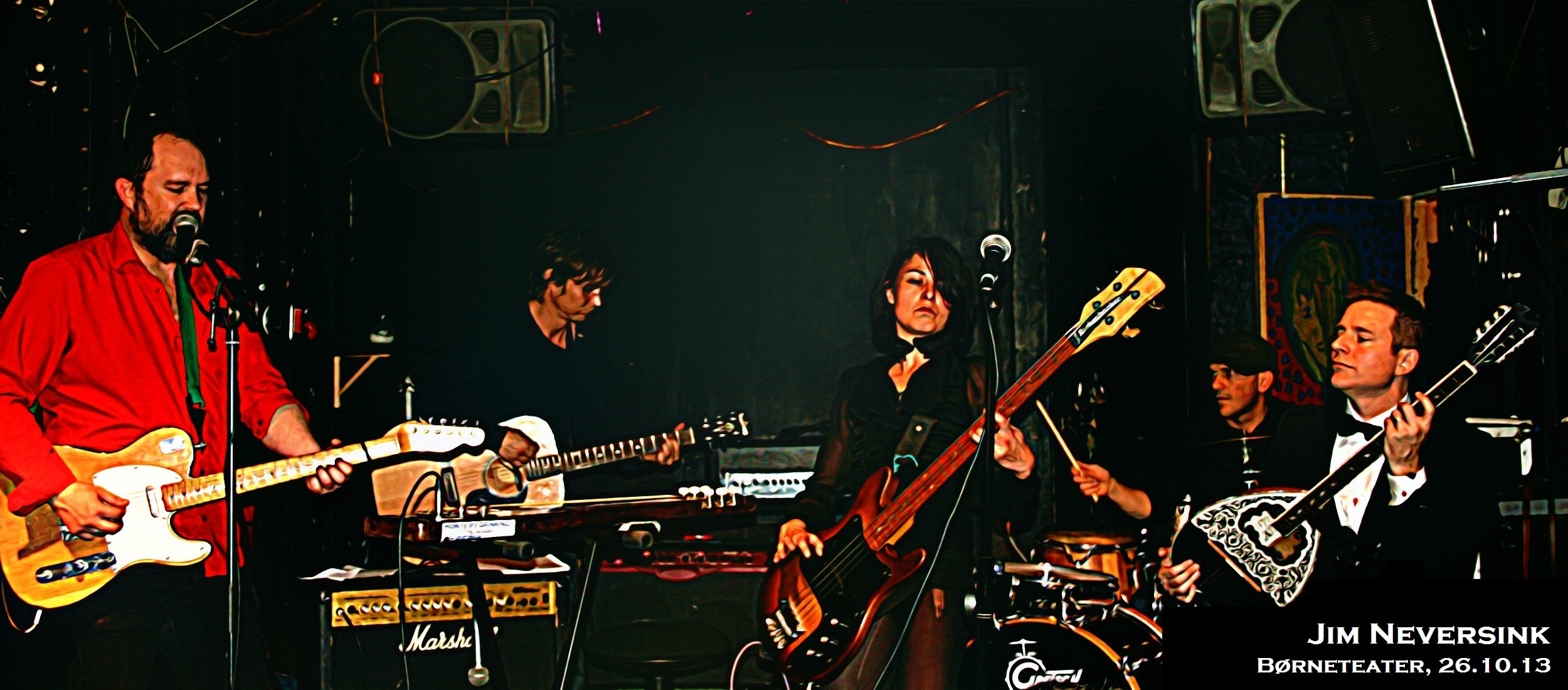 Jim Neversink playing live at the Børneteater, Copenhagen, October 2013. Jim Neversink on guitar and lapsteel and vocals, Loandi Boersma on bass, Håkon Lervåg on guitar, Lucas O'Connor on drums, Len Seabrooke on bouzouki.